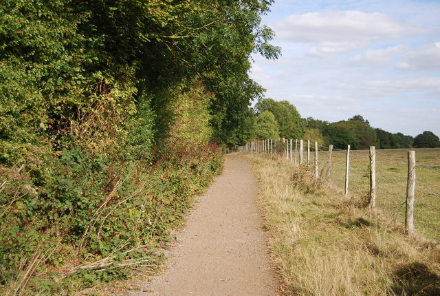 Eden Valley Walk & National Cycleway 12